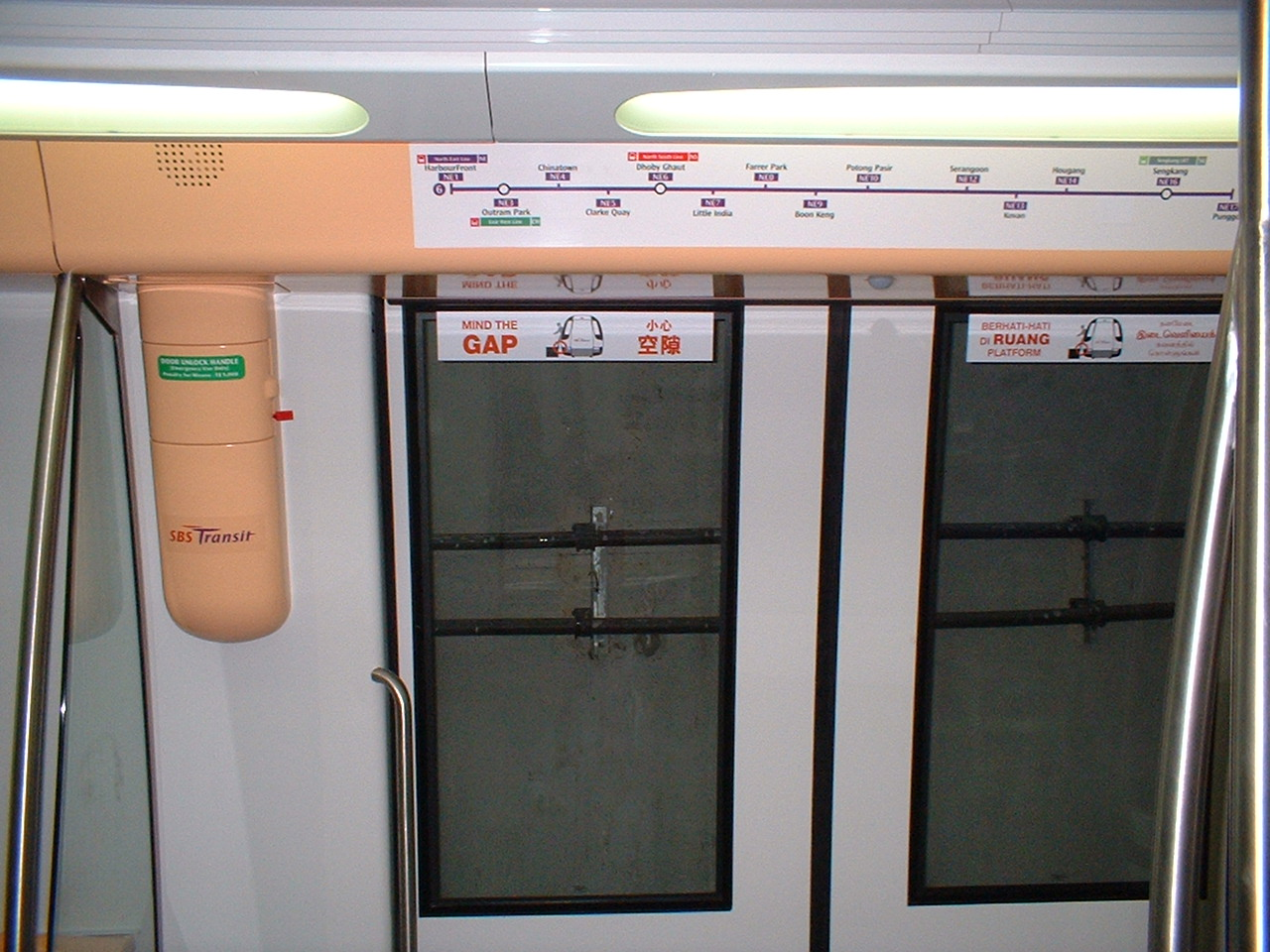 Door of Alstom Metropolis train, rolling stock for the North-East Line (NEL). The system map for NEL is displayed above the doors.